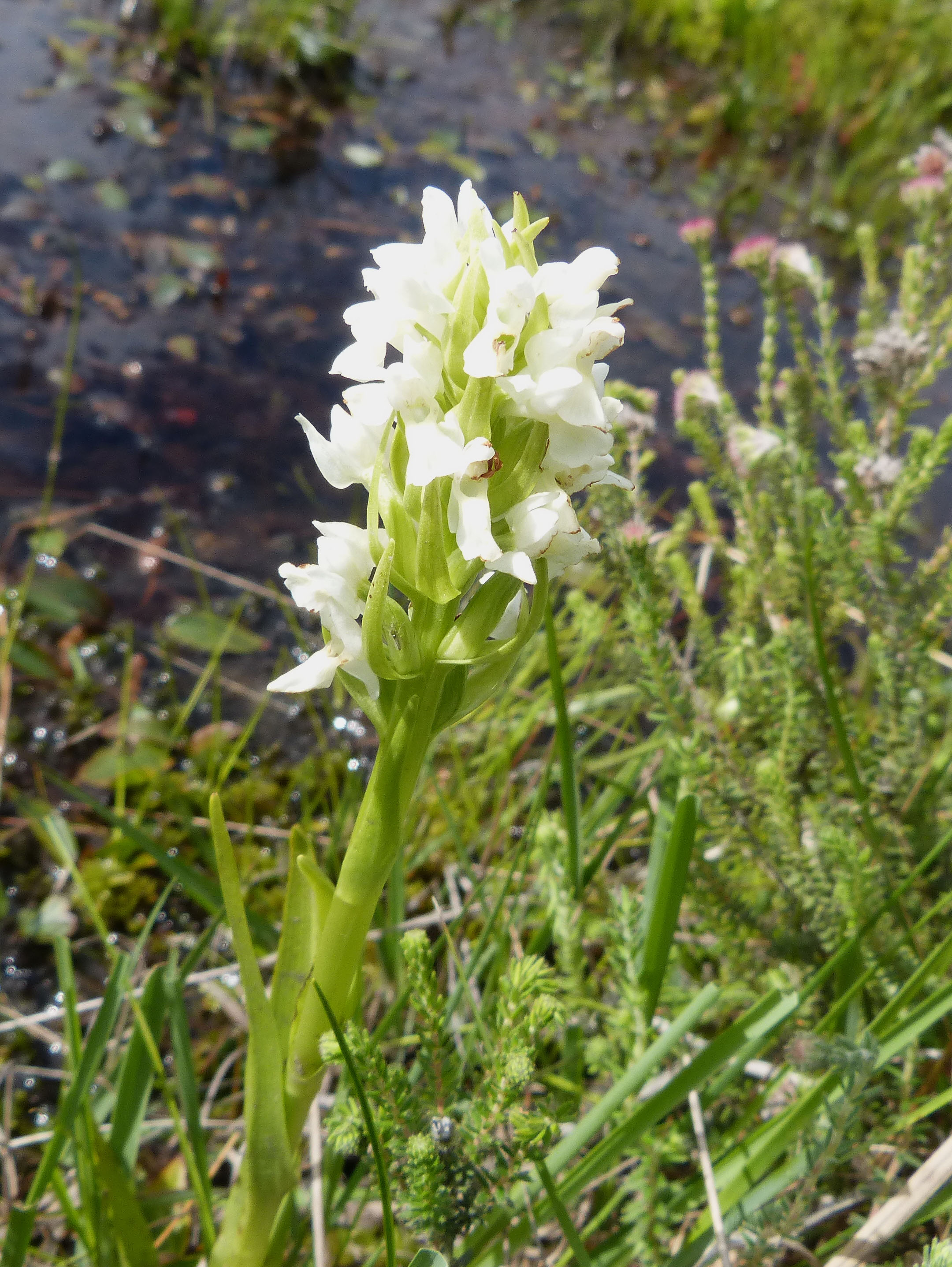 Sothern Marsh Orchid?...white sport